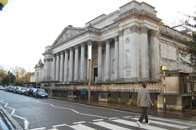 The Fitzwilliam Museum This shows the front of the oldest part of the museum, the Founder's Building, in Trumpington Street, Cambridge.